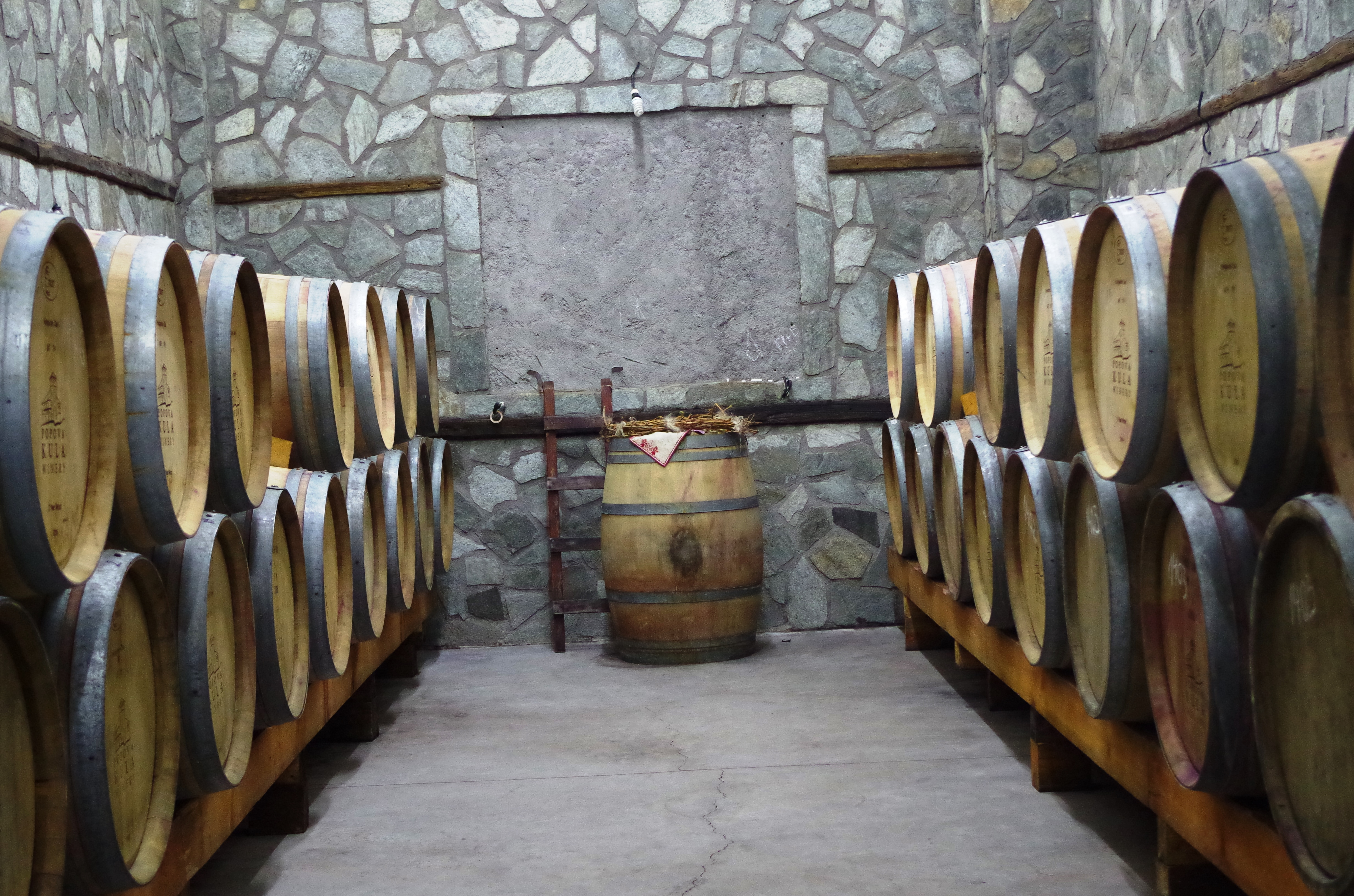 Barrels of wine, part of the winery Popova Kula near Demir Kapija